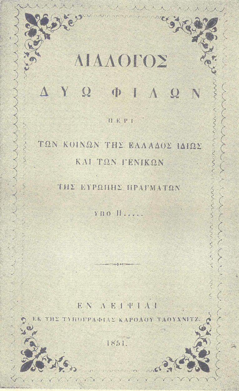 Cover of old book "Dialogue between two frinds" by Panagiotis Papanaoum, published in Leipsig in 1851.